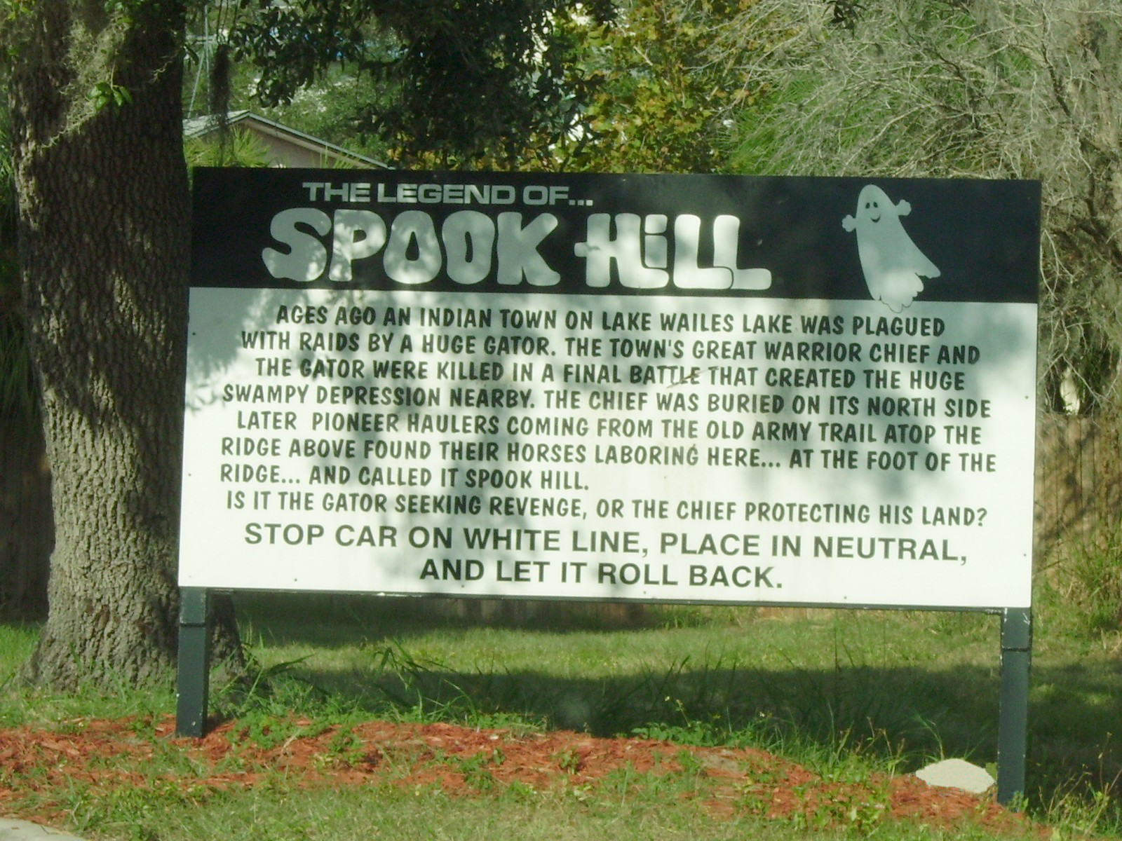 Digital photo taken by Marc Averette. Spook Hill in Lake Wales. 10/15/06 Marc Averette 00:33, 16 October 2006 (UTC)